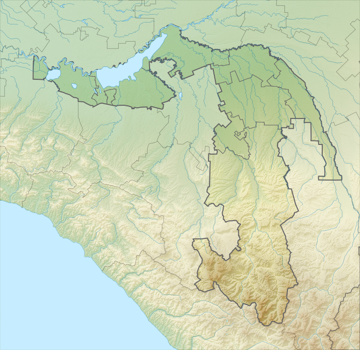 Topographic relief map of the Republic of Adygea — located in South European Russia.